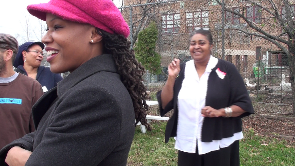 Tour of the Catherine Ferguson Academy Farm, December 2009 with Principal Andrews December 2009. (photo by James Chase)